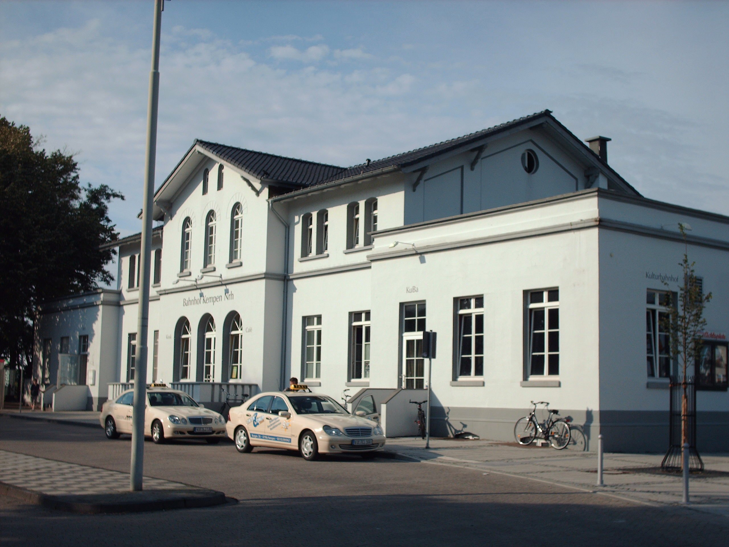 Kempen (Niederrhein) station, Kempen, Germany check usage